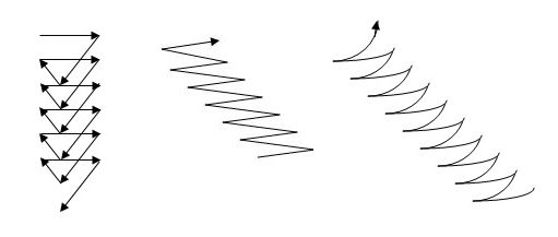 Траектории ручной дуговой сварки